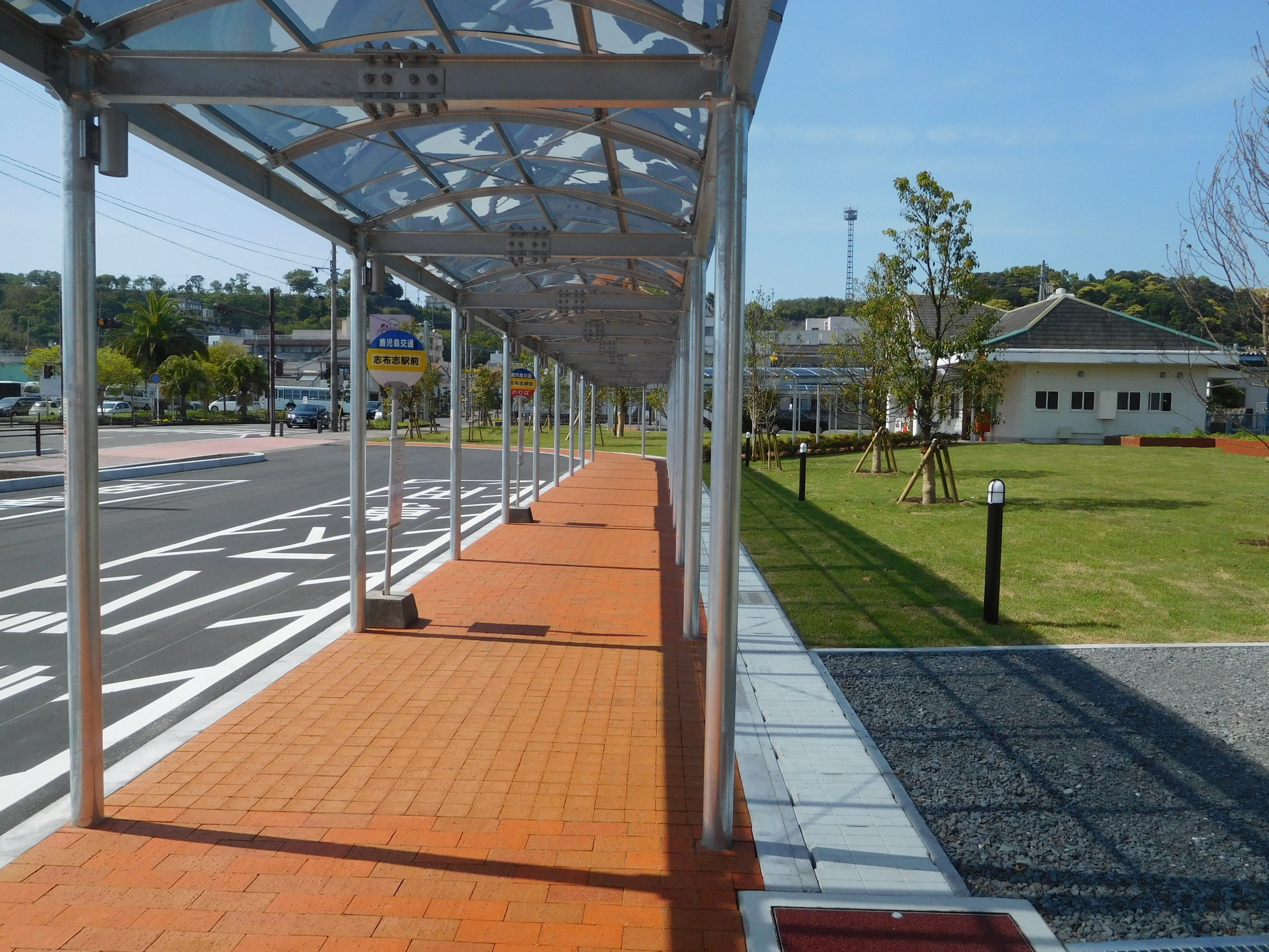 The Bus Terminal at Shibushi Station (Shibushi City, Kagoshima Prefecture, Japan)